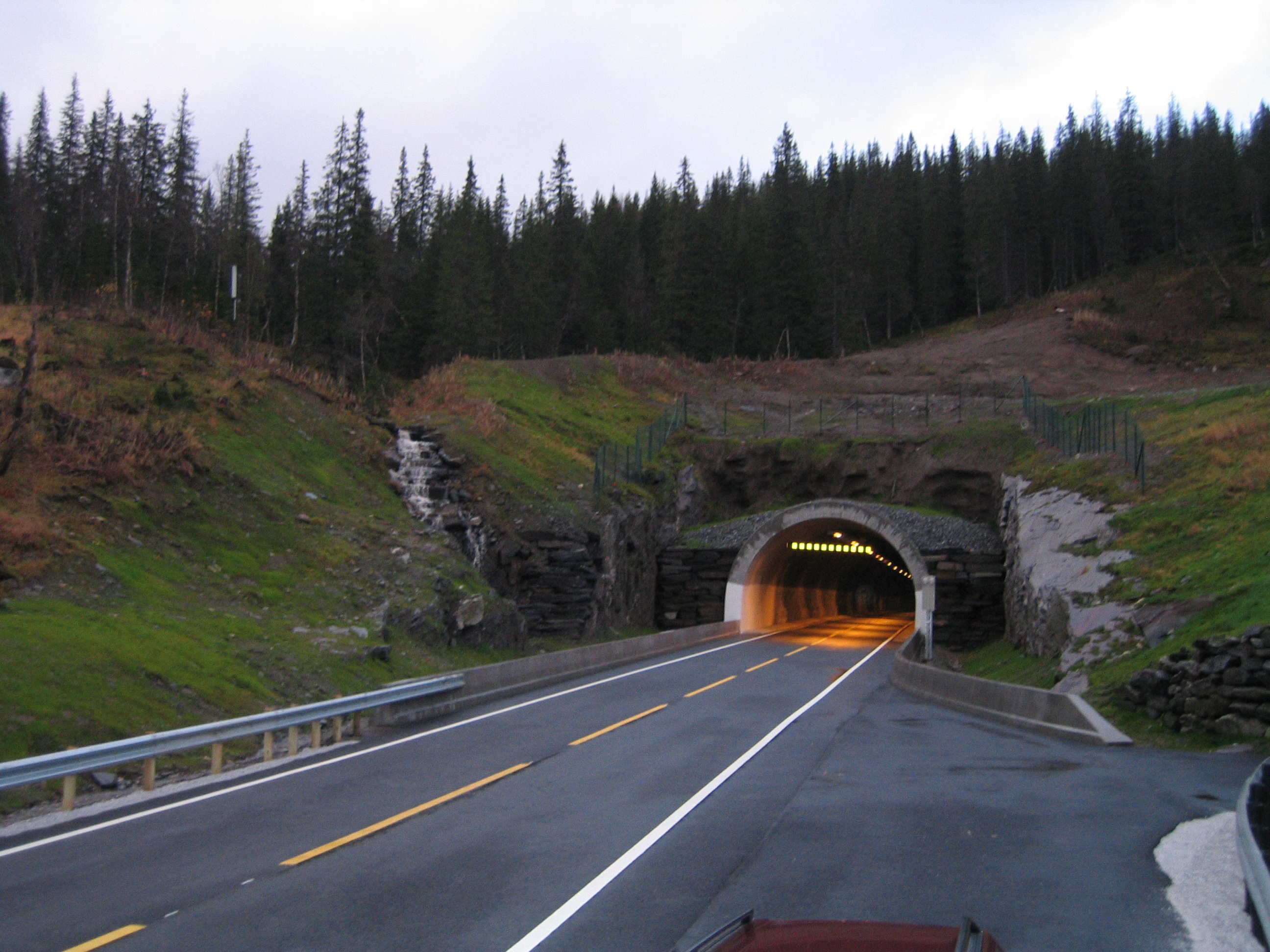 South portal into the Korgfjelltunnelen. Picture taken by myself on 2005-10-14